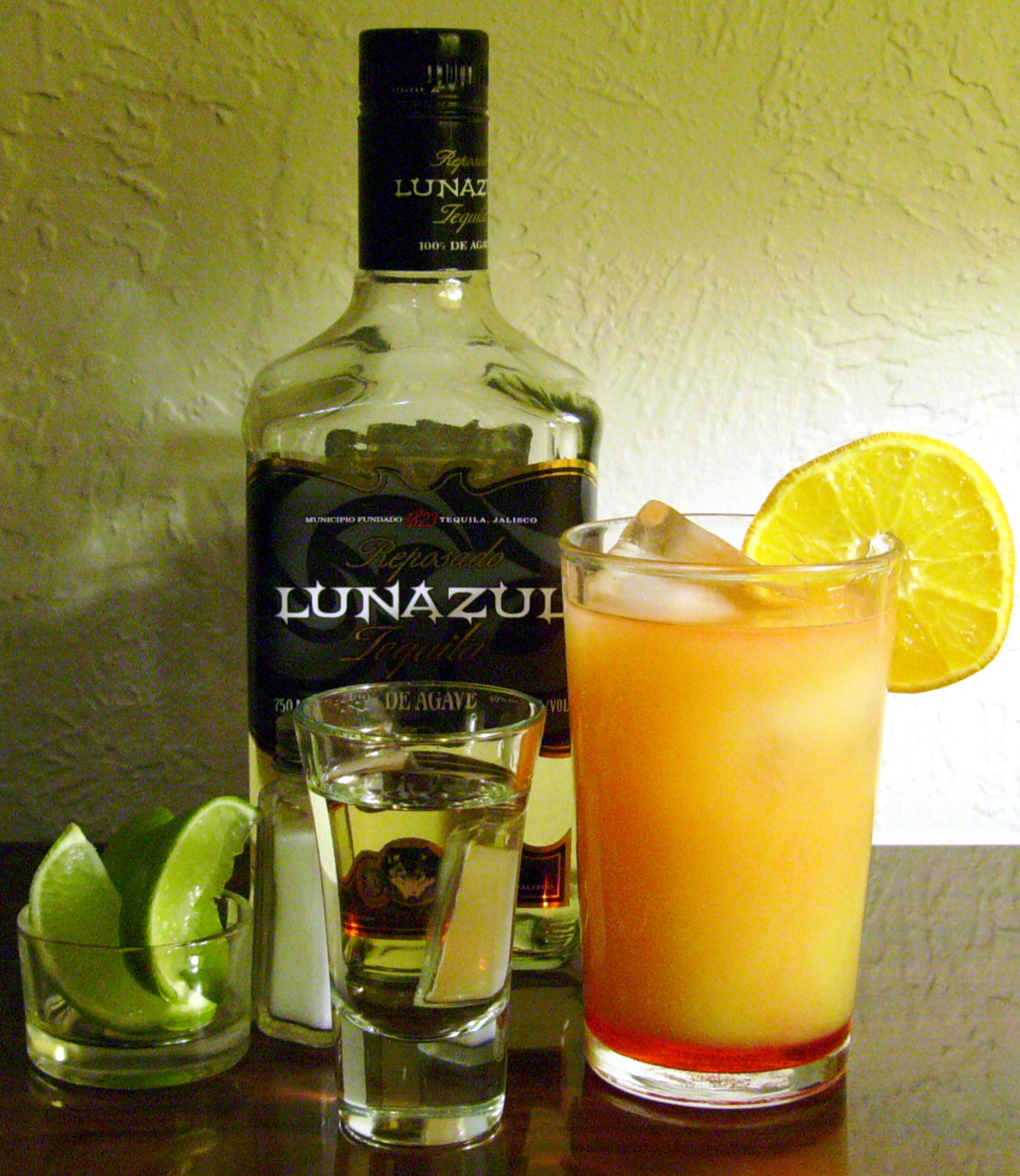 A bottle of Lunazul Reposado tequila, along with a shot, salt and lime, and a tequila sunrise cocktail.